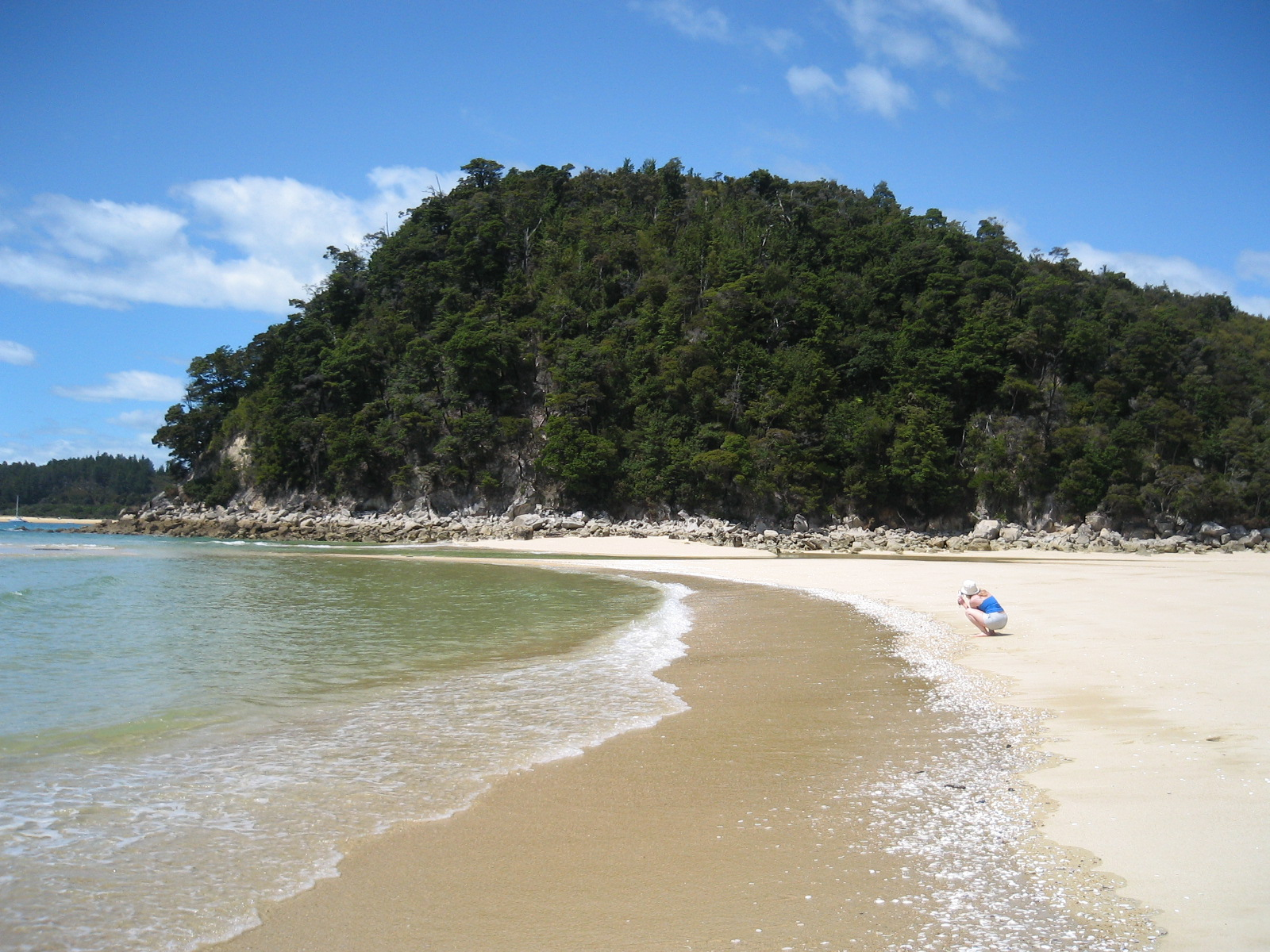 Torrent Bay in New Zealand.